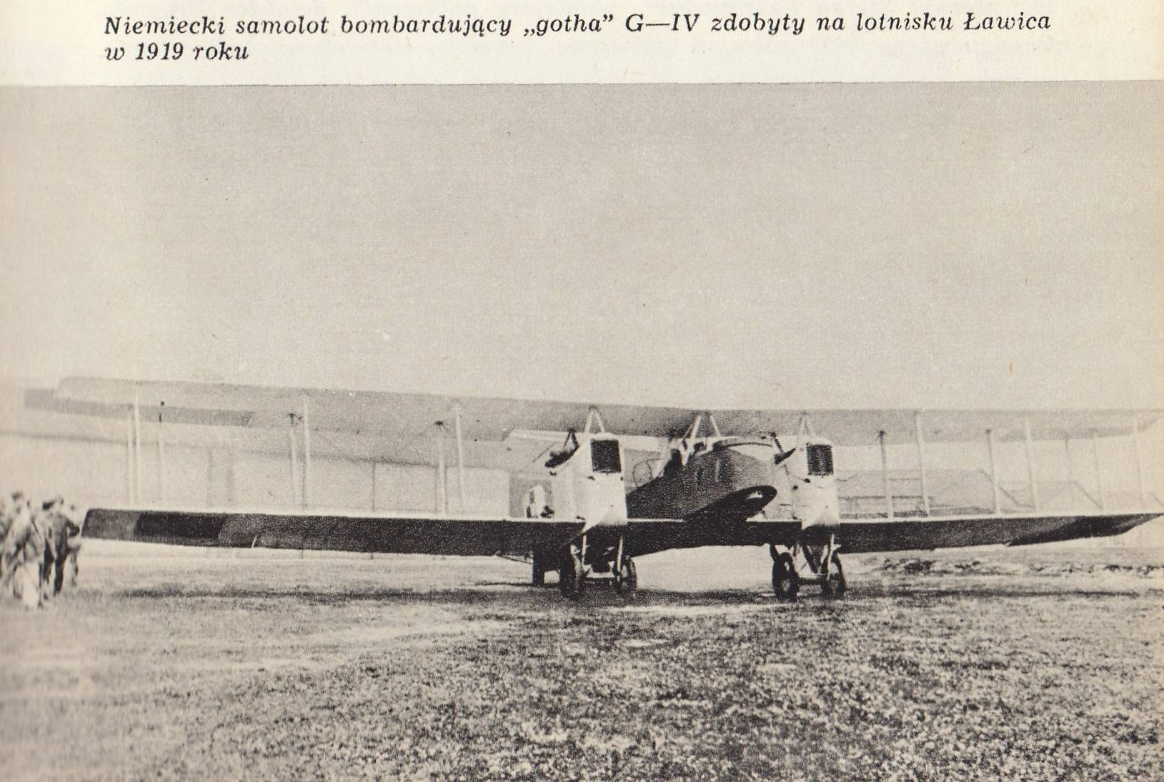 Gotha G.IV plane captured by Poles during Wielkopolskie Uprising in Ławica airport or near Nowy Tomyśl